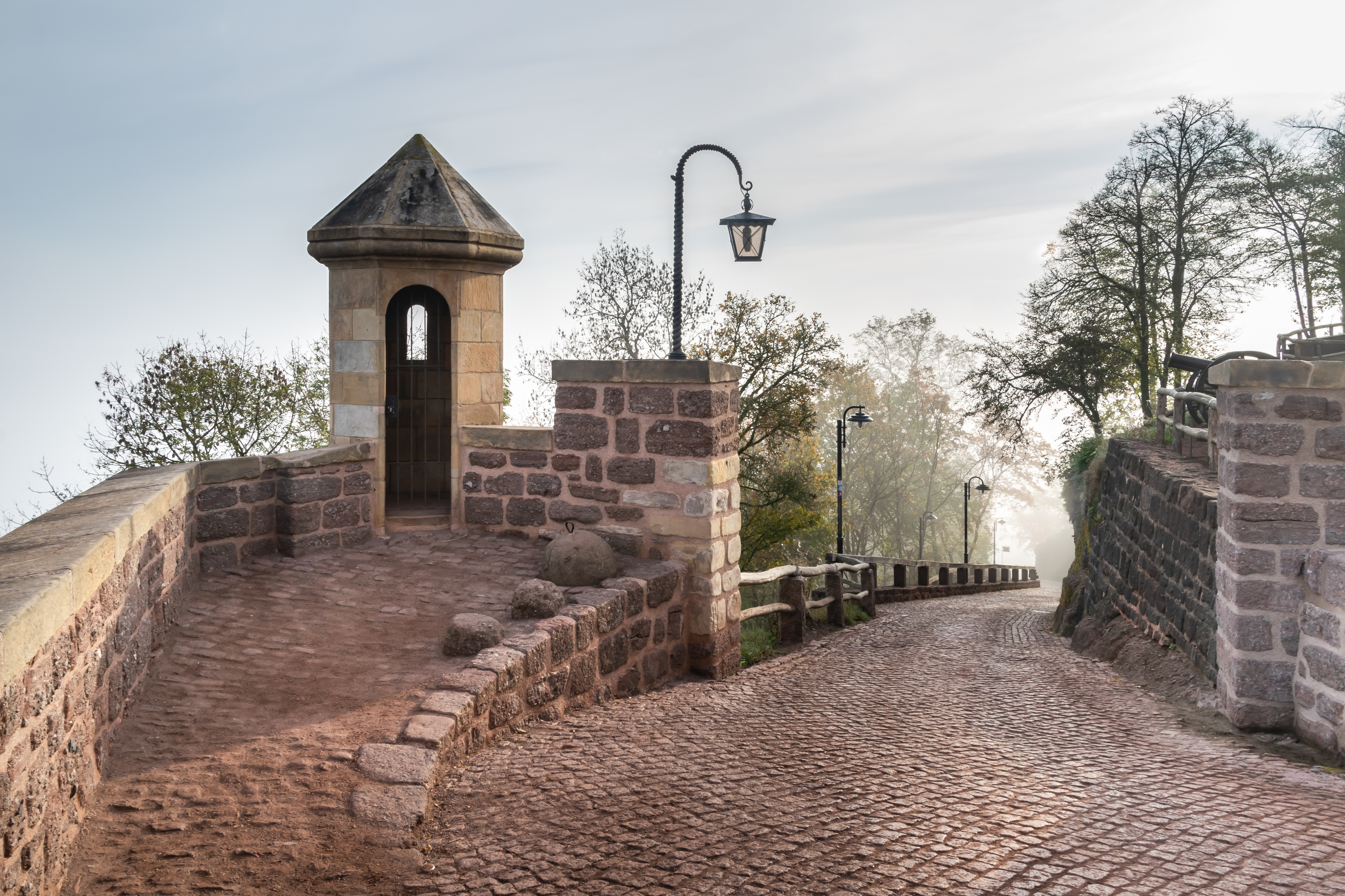 Sentry box of Wartburg Castle in Eisenach, Thuringia, Germany